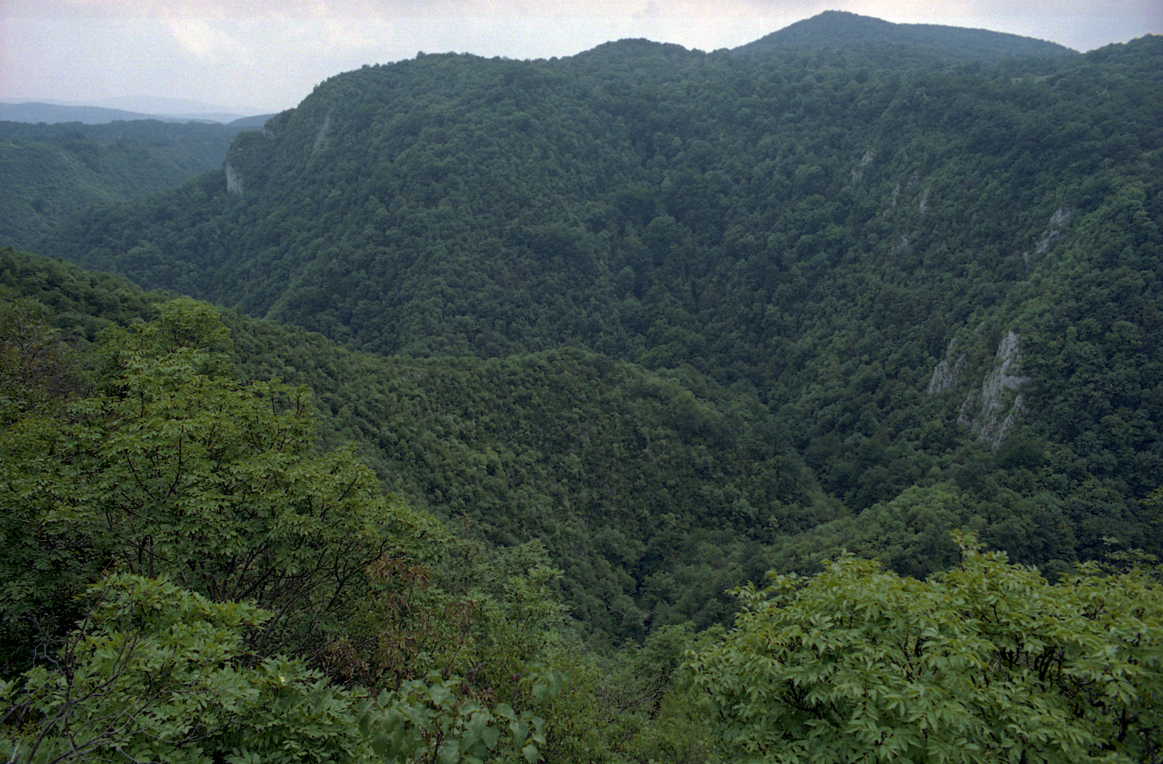 Semenic-Cheile Carașului National Park, river Caraș valley, Romania